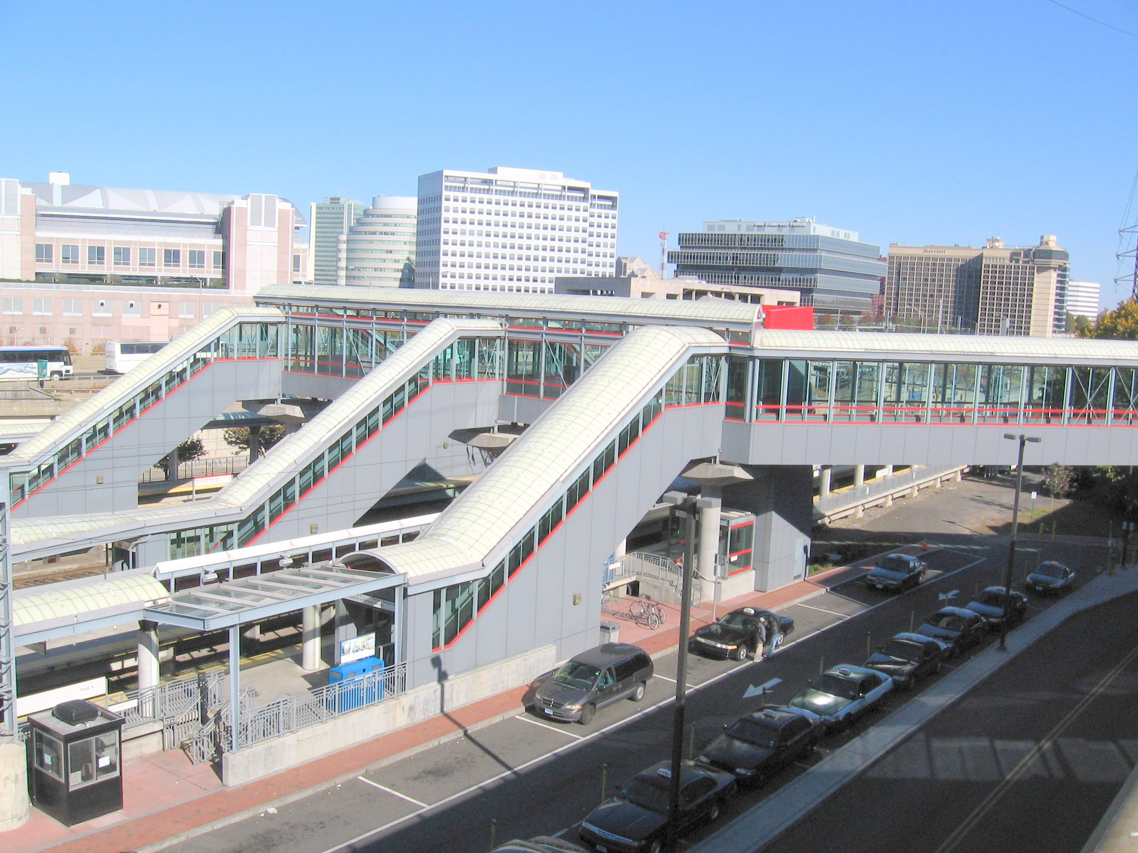 Stamford, looking northeast from the bridge to the concourse: taxis on the access road, pedestrian bridges from the garage to the platforms, city skyline showing (from left), the edge of the UBS AG North American headquarters building, Landmark tower, office buildings along Tresser Boulevard, including One Stamford Forum (shaped like an upside-down ziggurat) and Marriott hotel, with its revolving restaurant jutting out.